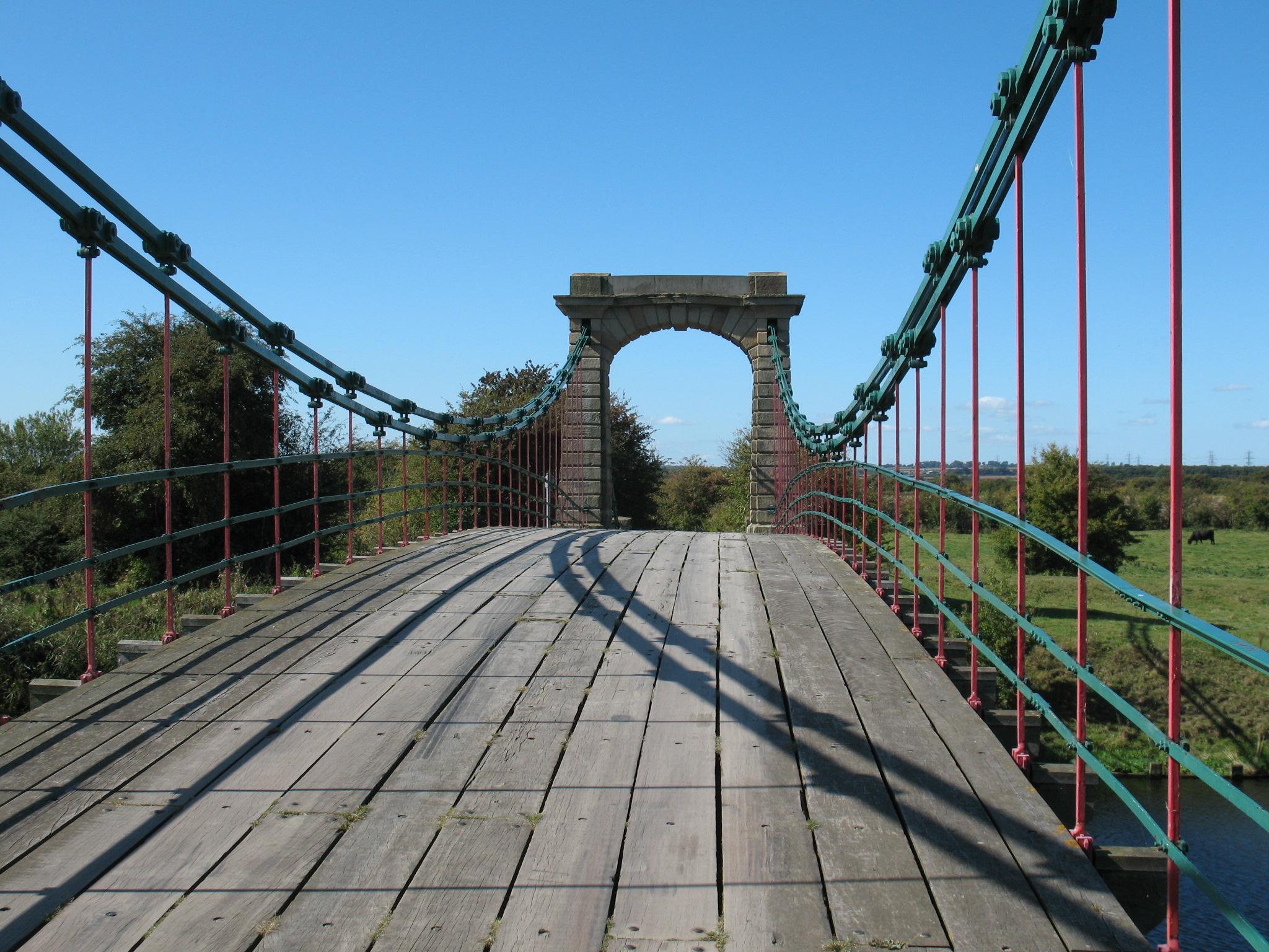 Deck and western arch of Horkstow Bridge over the River Ancholme in North Lincolnshire, England